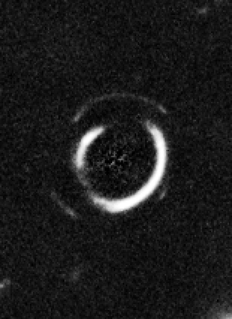 Gravitational Lens System SDSSJ0946+1006 (Zoom onto Double Einstein Ring)